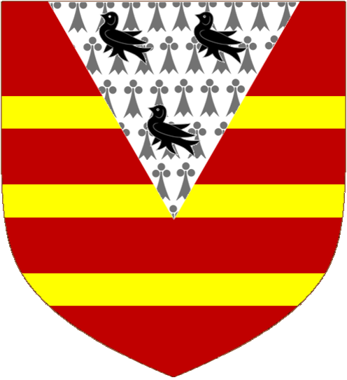 Shield of arms of The Viscount Kemsley